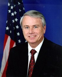 Elton Gallegly, member of the United States House of Representatives.